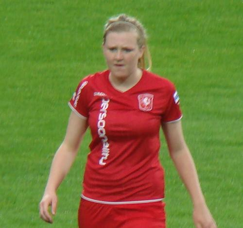 FC Twente player Ines Roessink